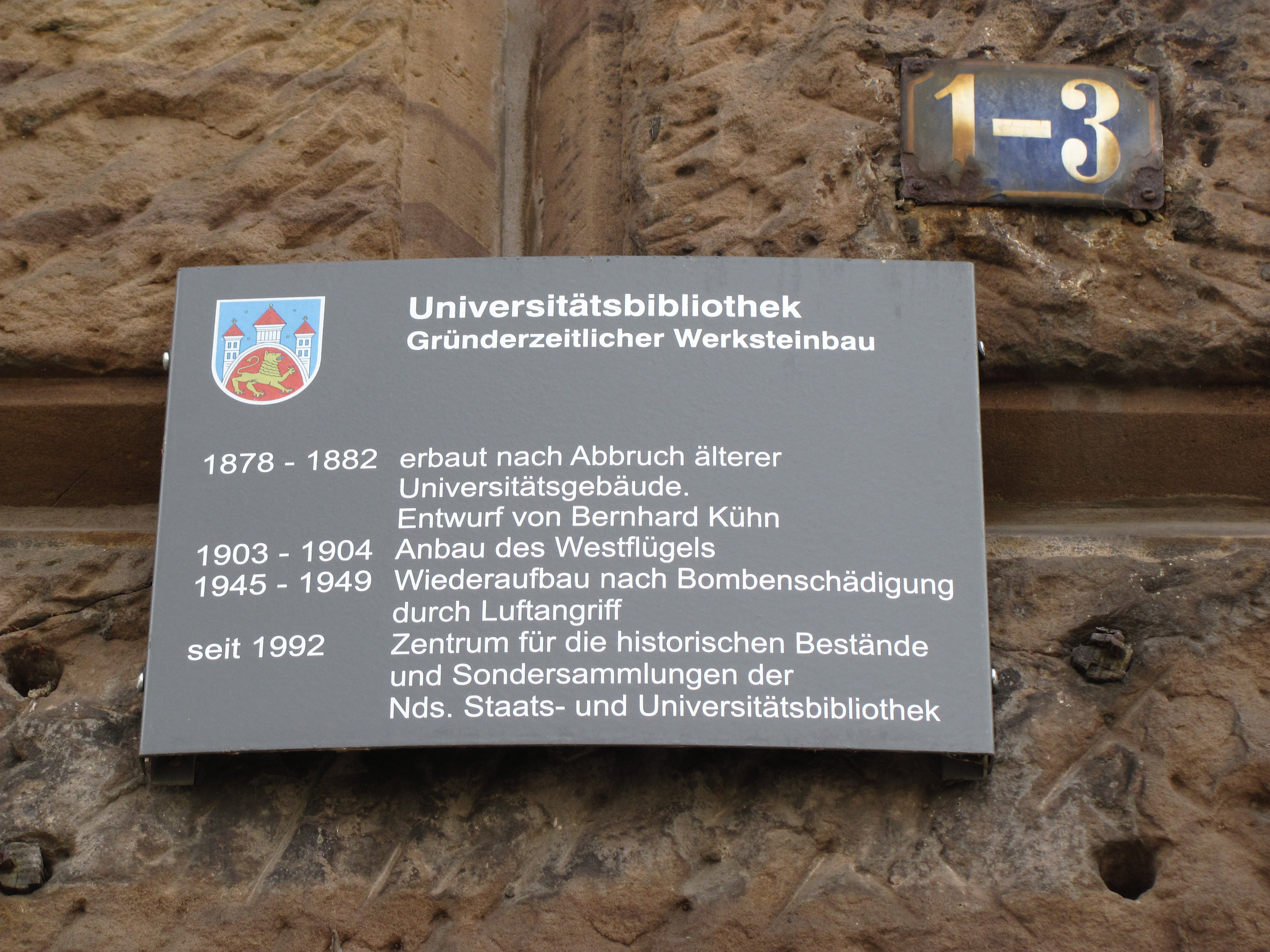 Conmemorative plaque on the Library, University of Göttingen, Lower Saxony, Germany